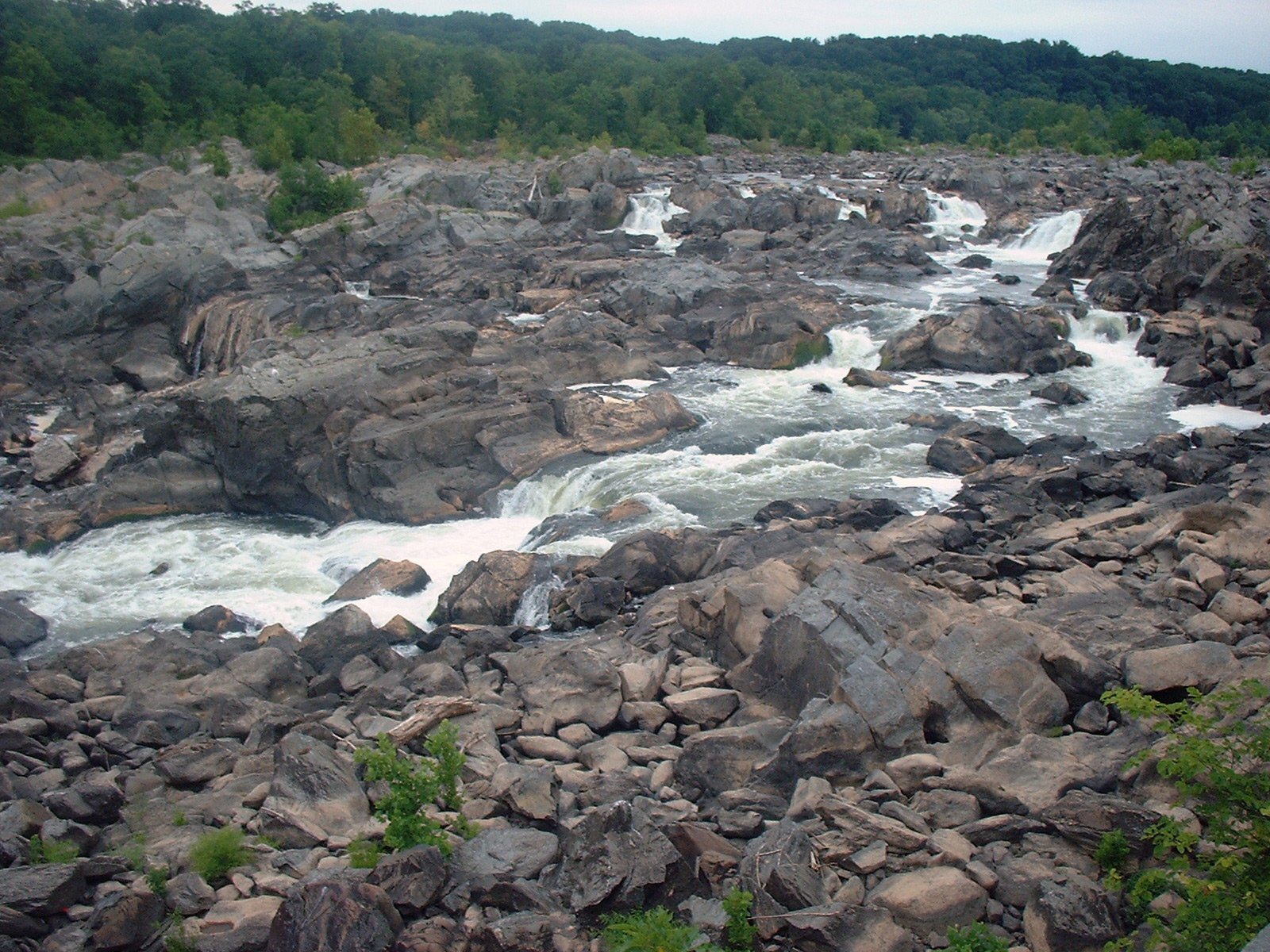 The Great Falls of the Potomac River in Maryland.